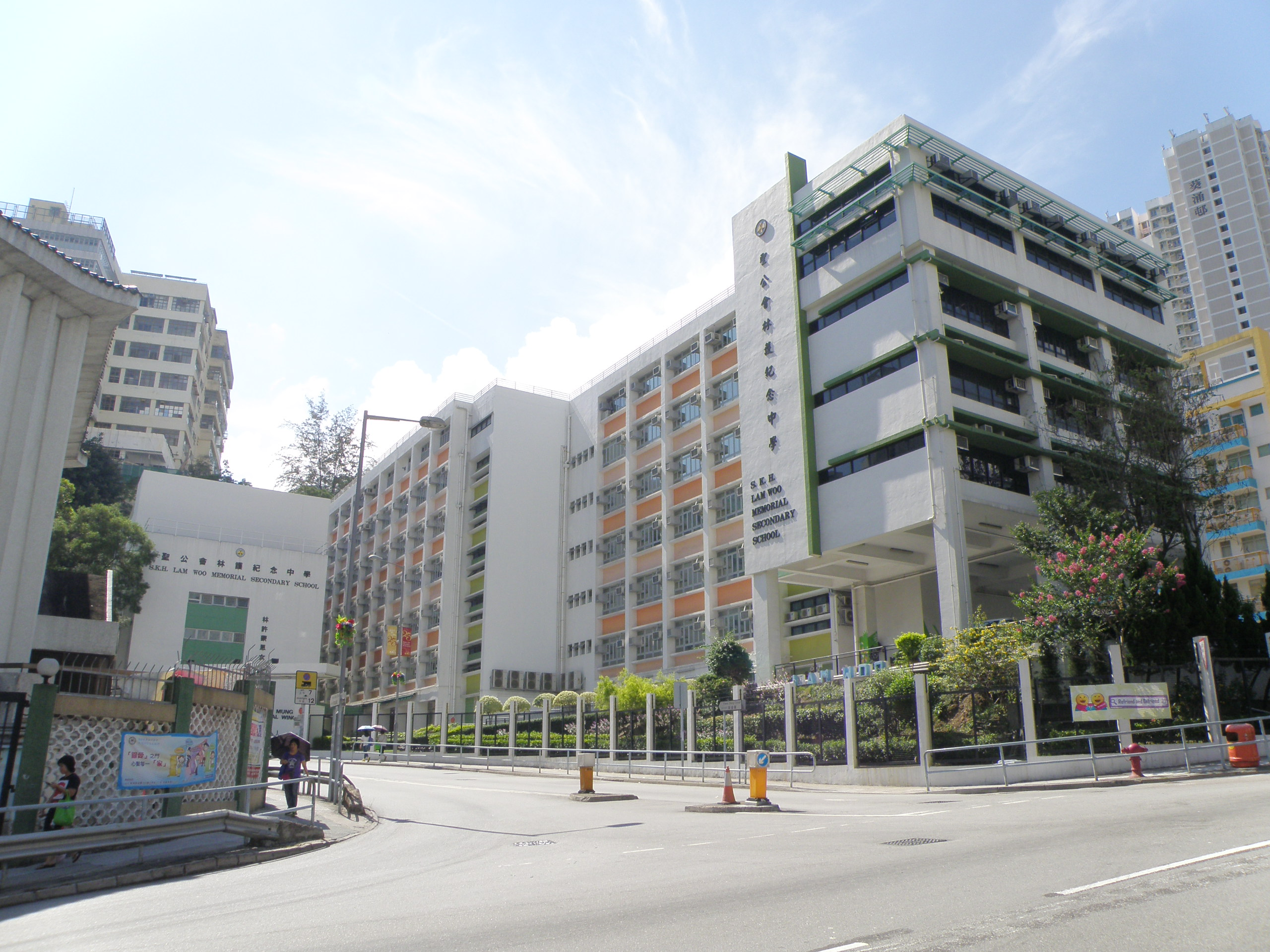 S.K.H. Lam Woo Memorial Secondary School in Kwai Chung, Hong Kong.